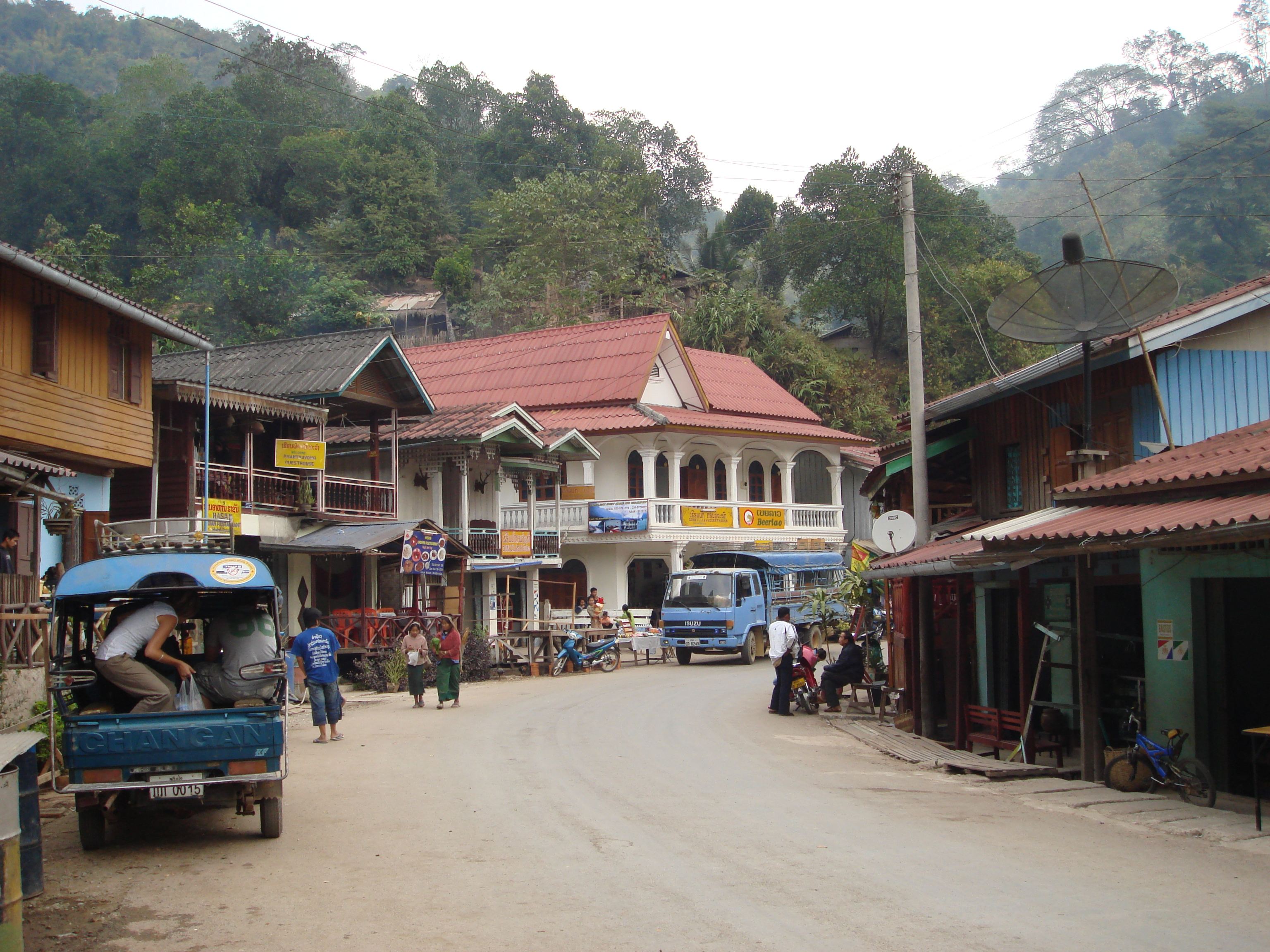 The main street in Pak Beng (Oudomxay Province, Laos).